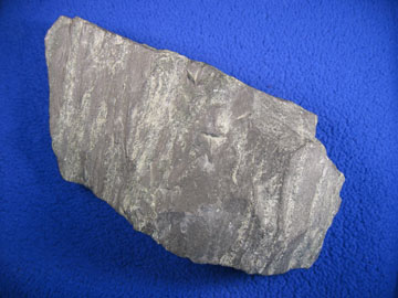 Taconite. In the United States, a hard, silica-rich iron ore called taconite (shown above) is mined in the Lake Superior region.